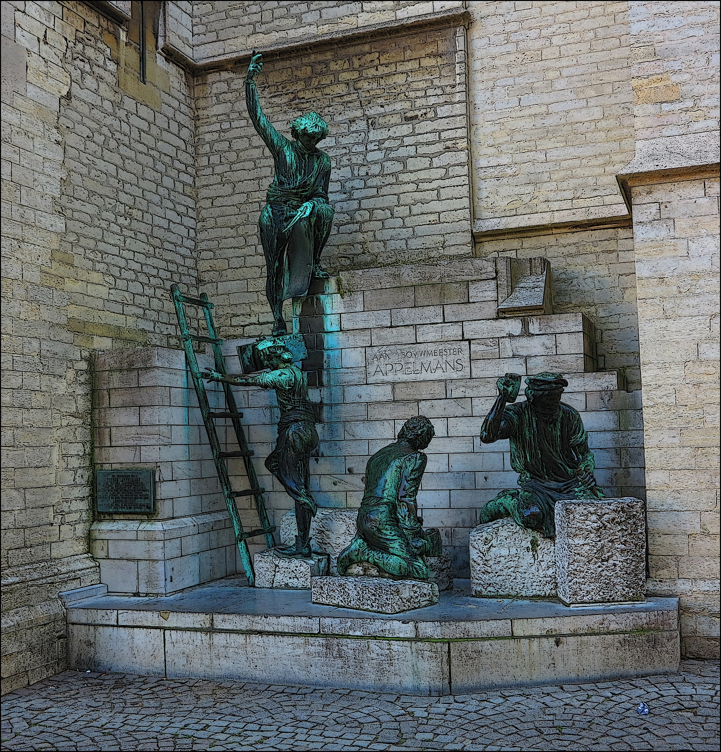 Statue Group Commemorating Architect of the Antwerp Cathedral